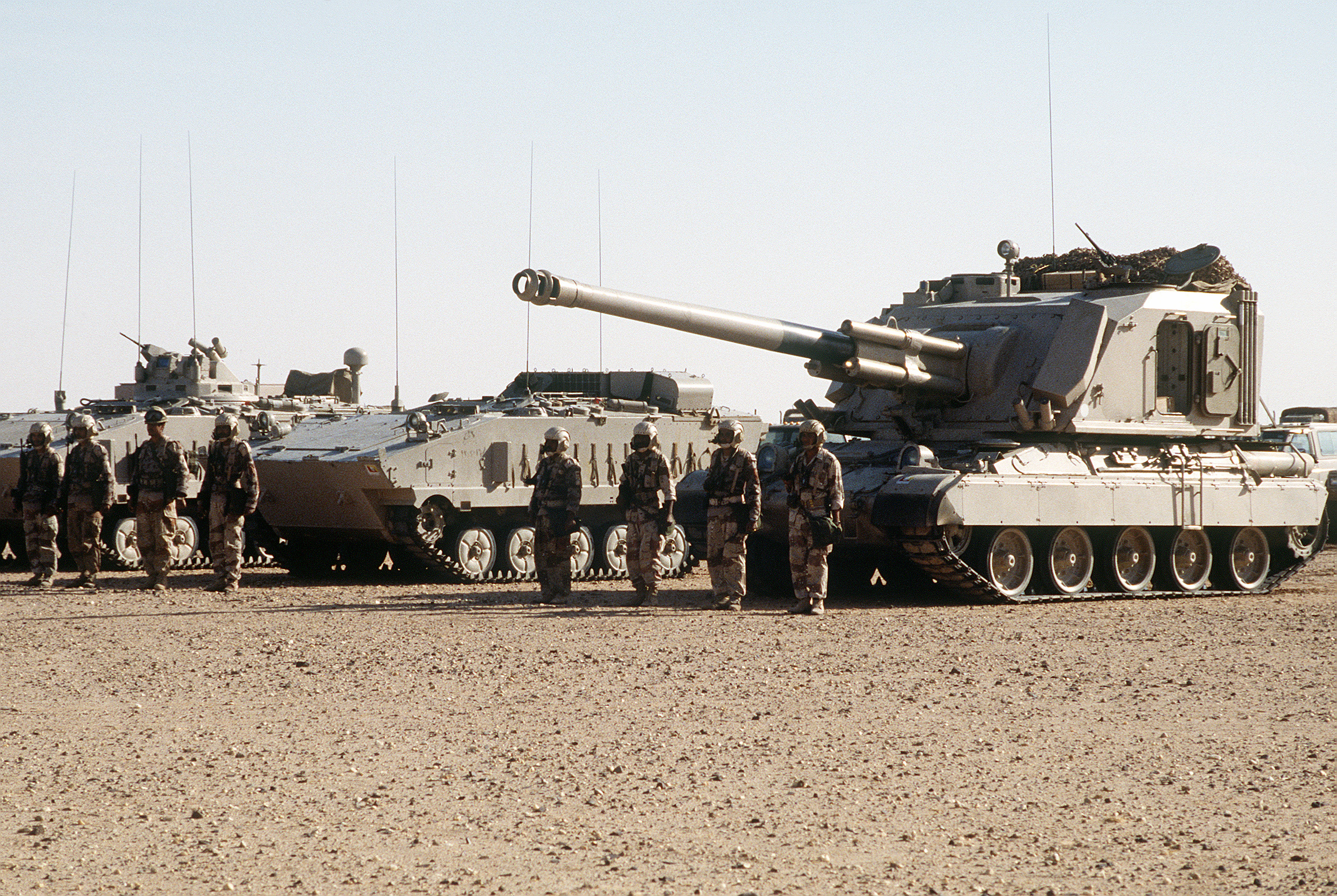 The 20th Brigade of the Royal Saudi Land Force displays a 155mm GCT self-propelled gun, left, and AMX-10P infantry combat vehicles during Operation Desert Shield.